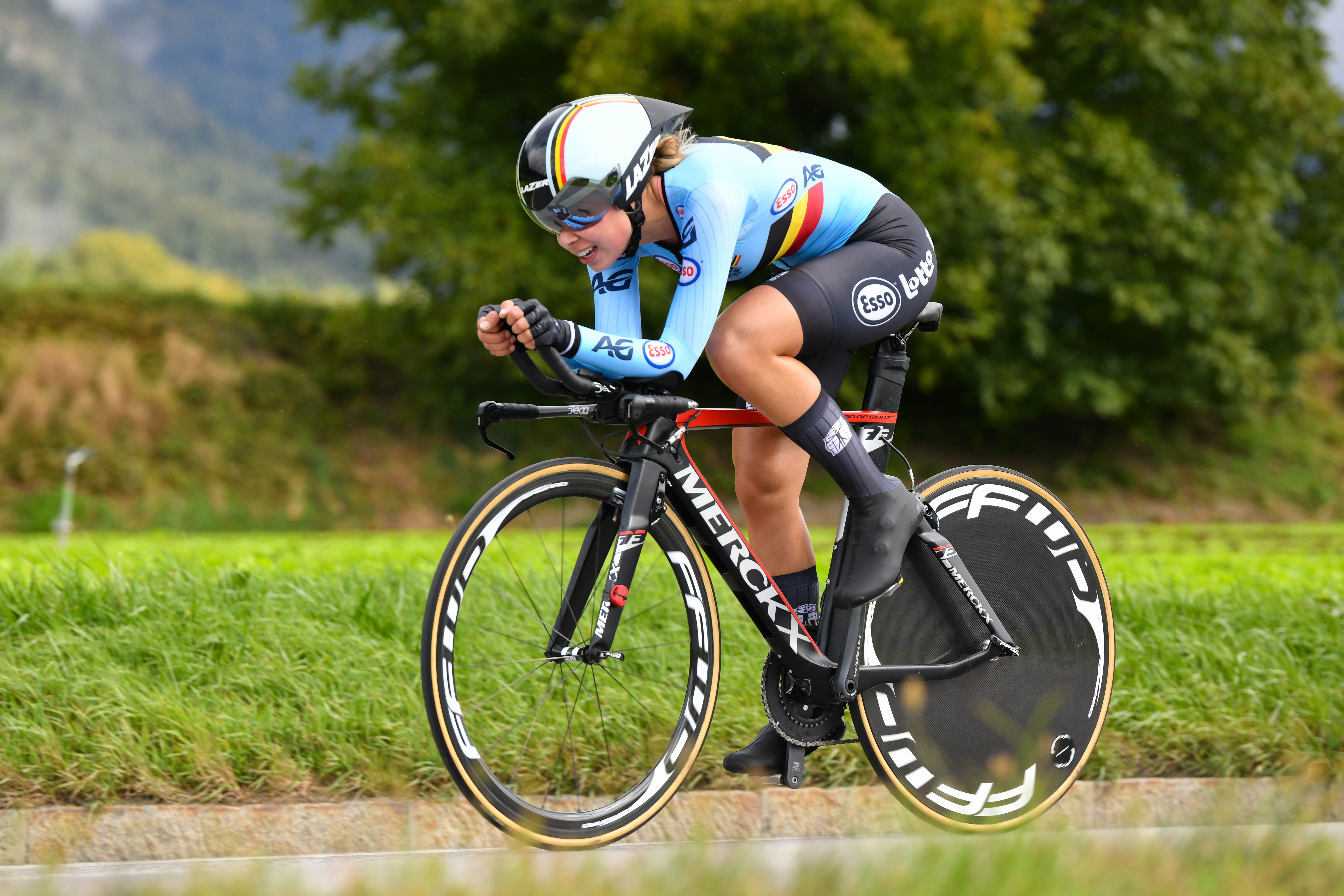 2018 UCI Road World Championships Innsbruck/Tirol Women Juniors Individual Time Trial. Picture shows: Shari Bossuyt (BEL)